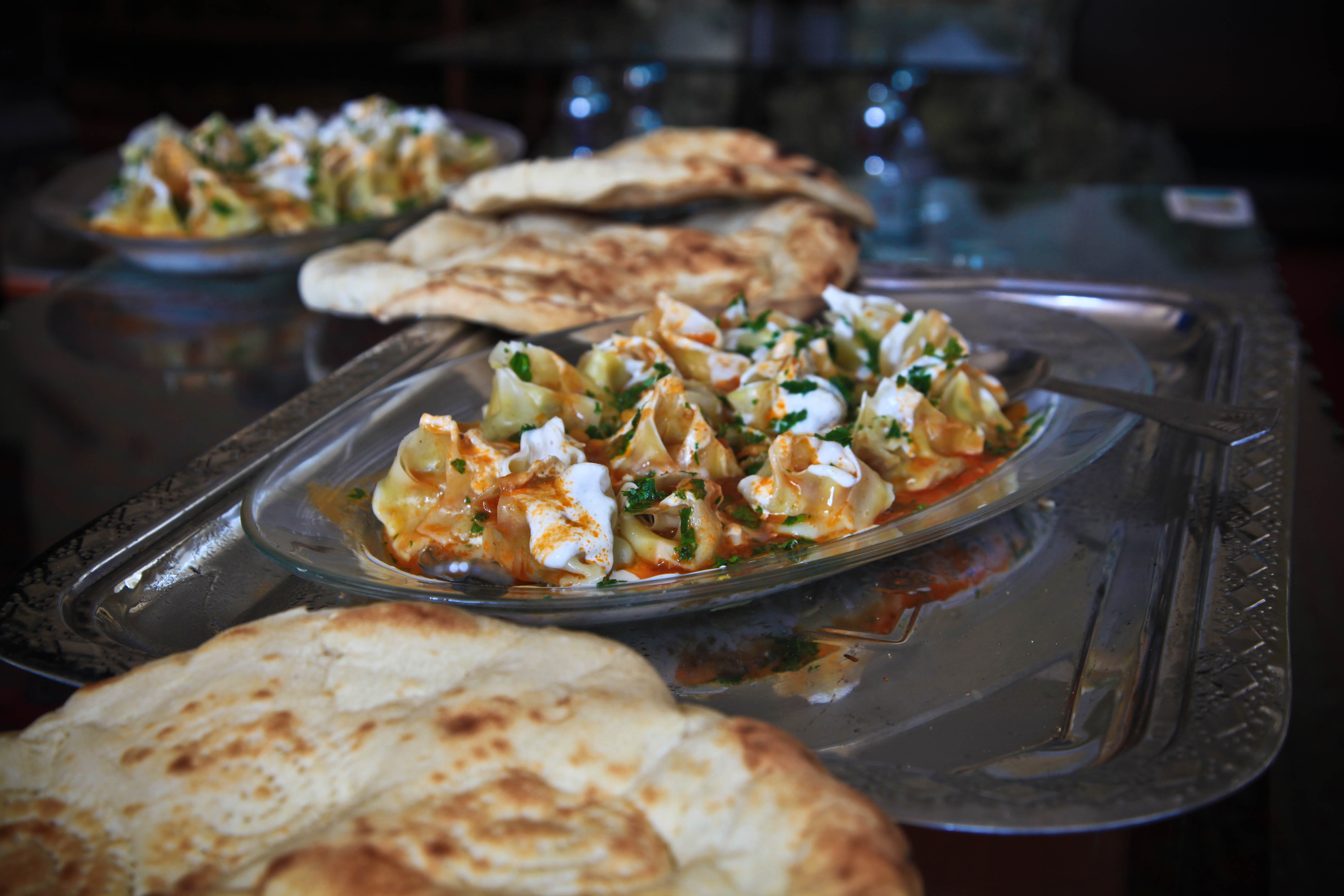 The Afghan dish of mantoo was prepared by women in the Kapisa Women's Shelter for U.S. soldiers serving with the Female Engagement Team, Kentucky National Guard Agribusiness Development Team 3, Task Force Hurricane, Mahmod-e Raqi District, Kapisa province, Afghanistan, Dec. 31, 2011. (Photo ID: 505805)